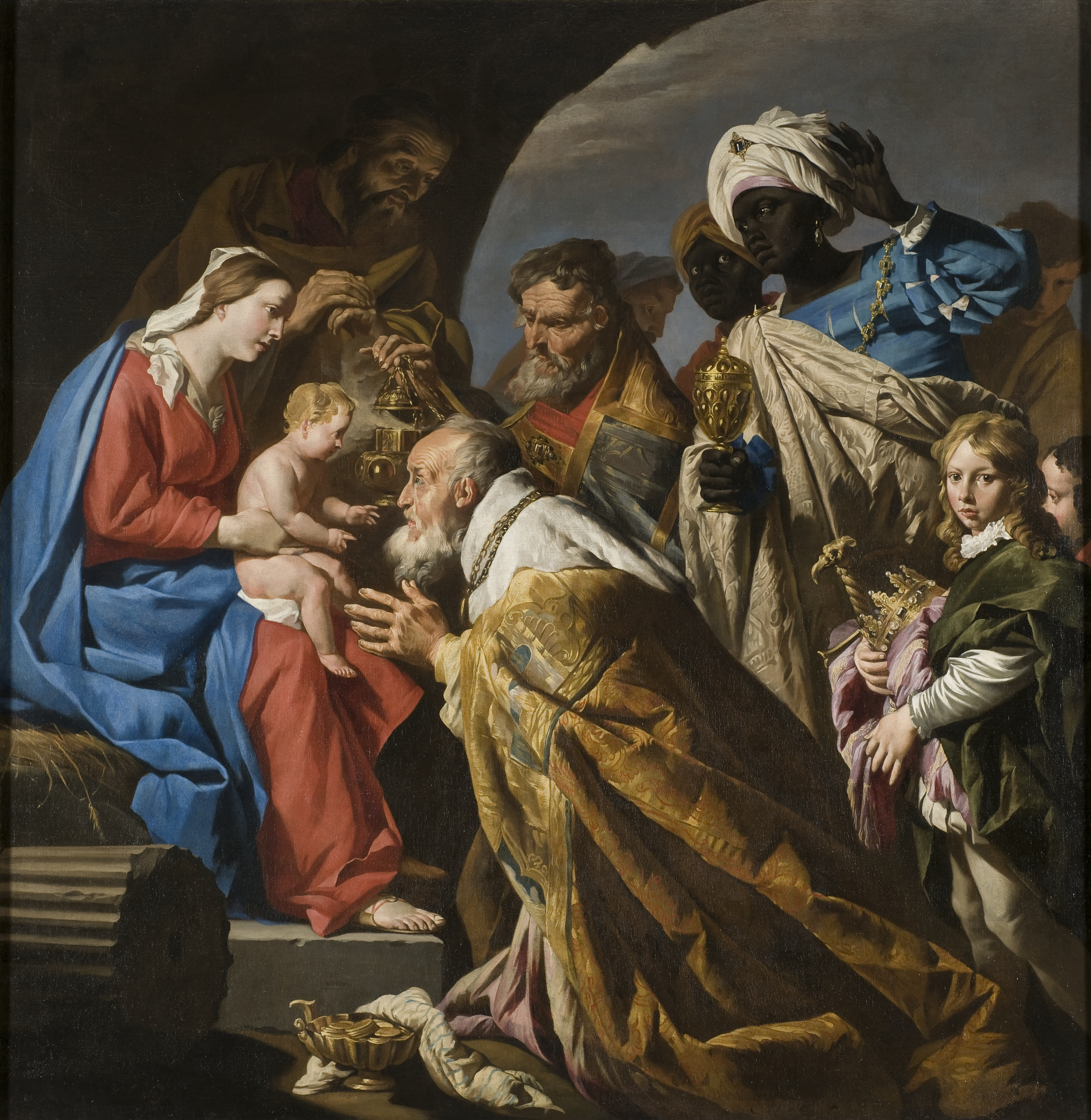 As recounted in the Gospel of Matthew, the three kings journeyed from the east following a star to seek out the king of the Jews at Bethlehem. Representing different ages, races, and continents – Europe, Africa, and Asia – their homage to Christ symbolises the submission of the temporal powers to the authority of the Church. Their gifts of gold, frankincense, and myrrh, were interpreted as symbols of the kingship of Jesus, his priestly ministry, and his incarnation as a man. The painting gives visual expression to the idea that the New Law was founded on the ruins of the Old: the space that accommodates the Holy Family and the retinue of the Magi is littered with the broken columns of an ancient temple. A surprisingly bright natural light illuminates the massive figures, modelled by sharp contrasts of light and shade. The magnificent spectacle of the Magi and their retinue, their brocade and silk garments rendered with exquisite attention to texture, is tempered by a desire for narrative clarity. By contrast with the realism of the male figures’ physiognomies, a more idealised mode was chosen for the portrayal of Jesus and Mary.